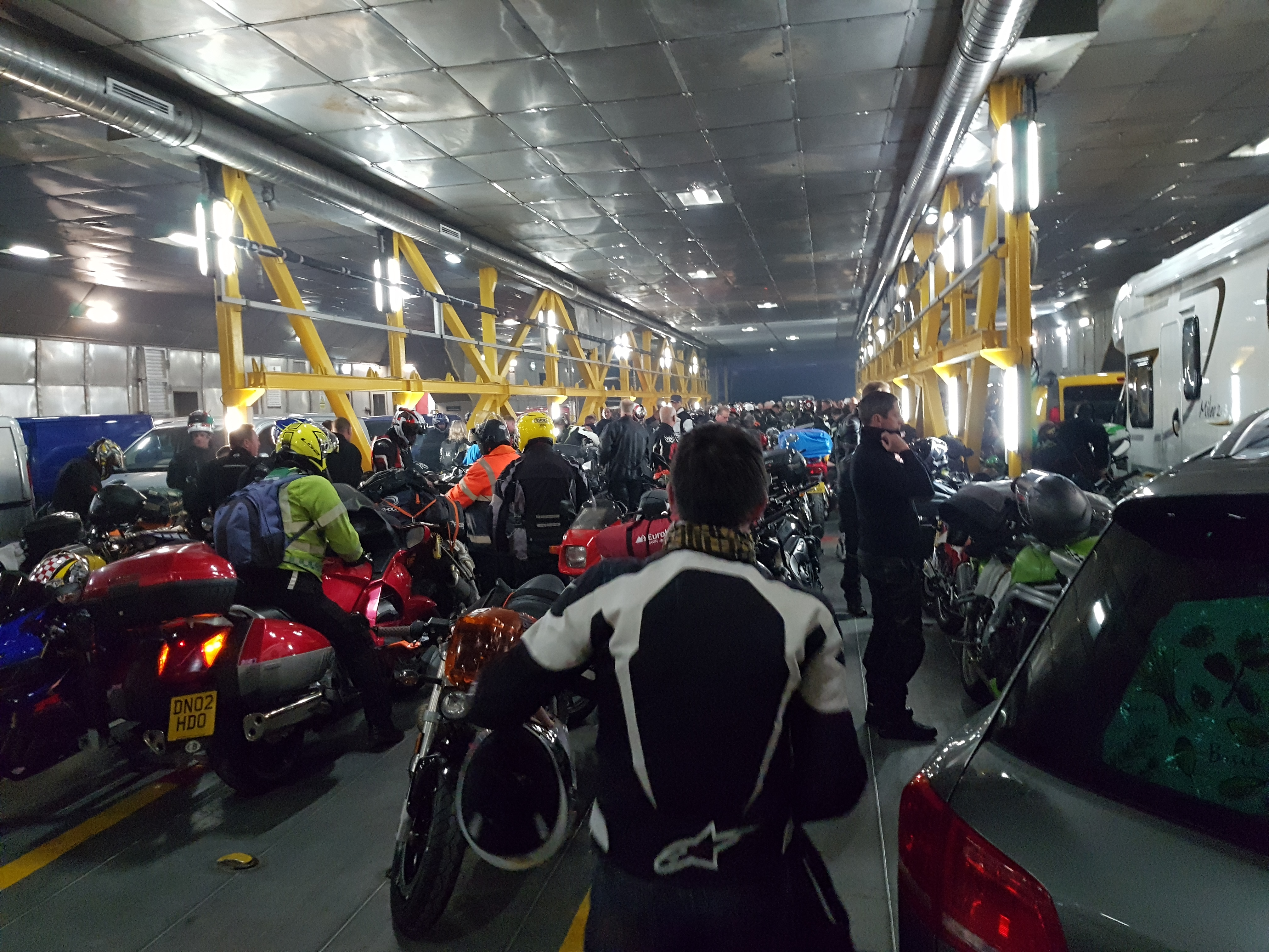 Motorcyclists on the Manx ferry from Liverpool going to the TT races 2018